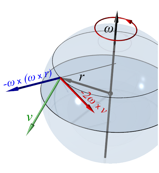 Illustration of coriolis force